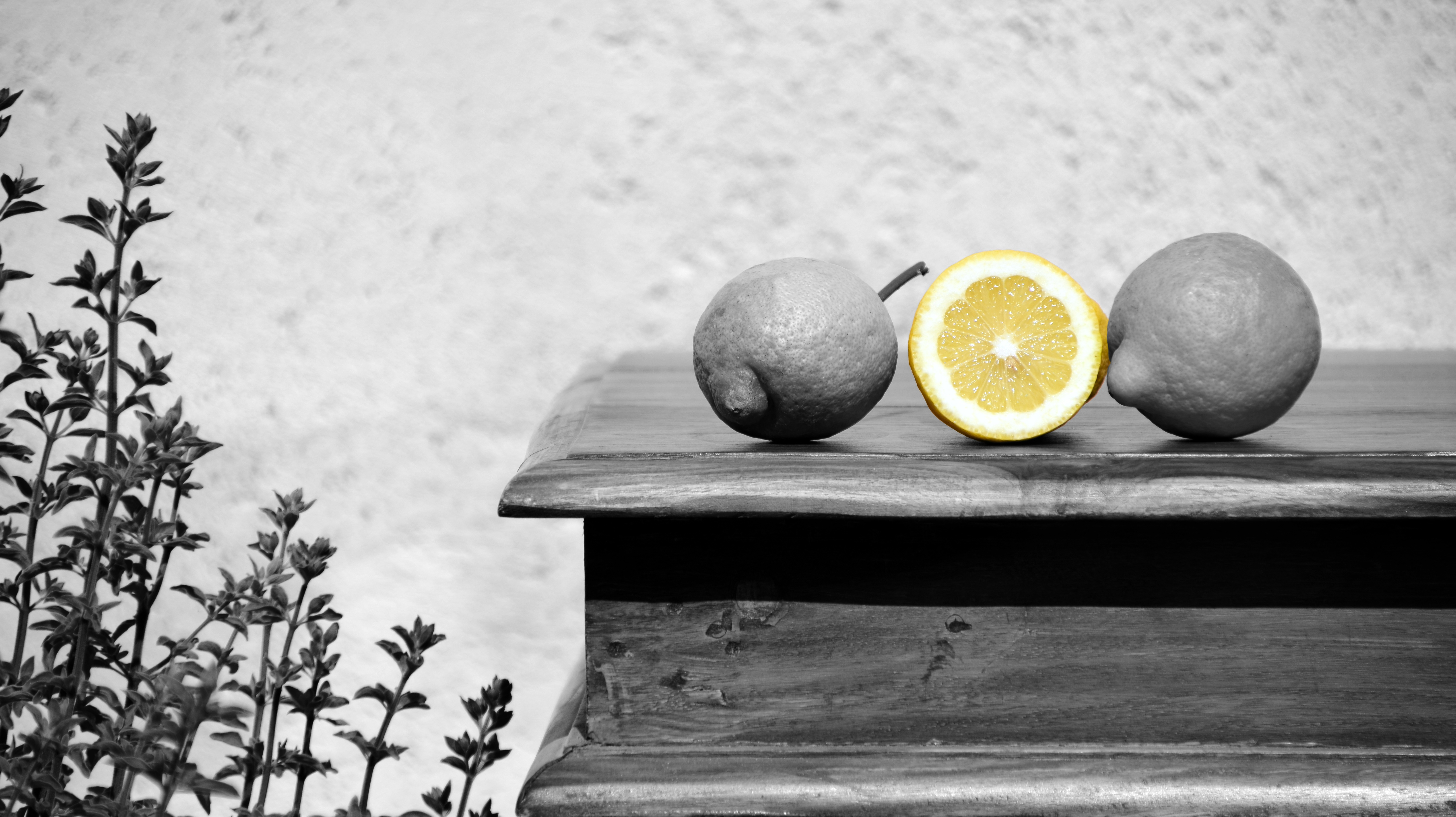 A lemon stands out against a black and white background.